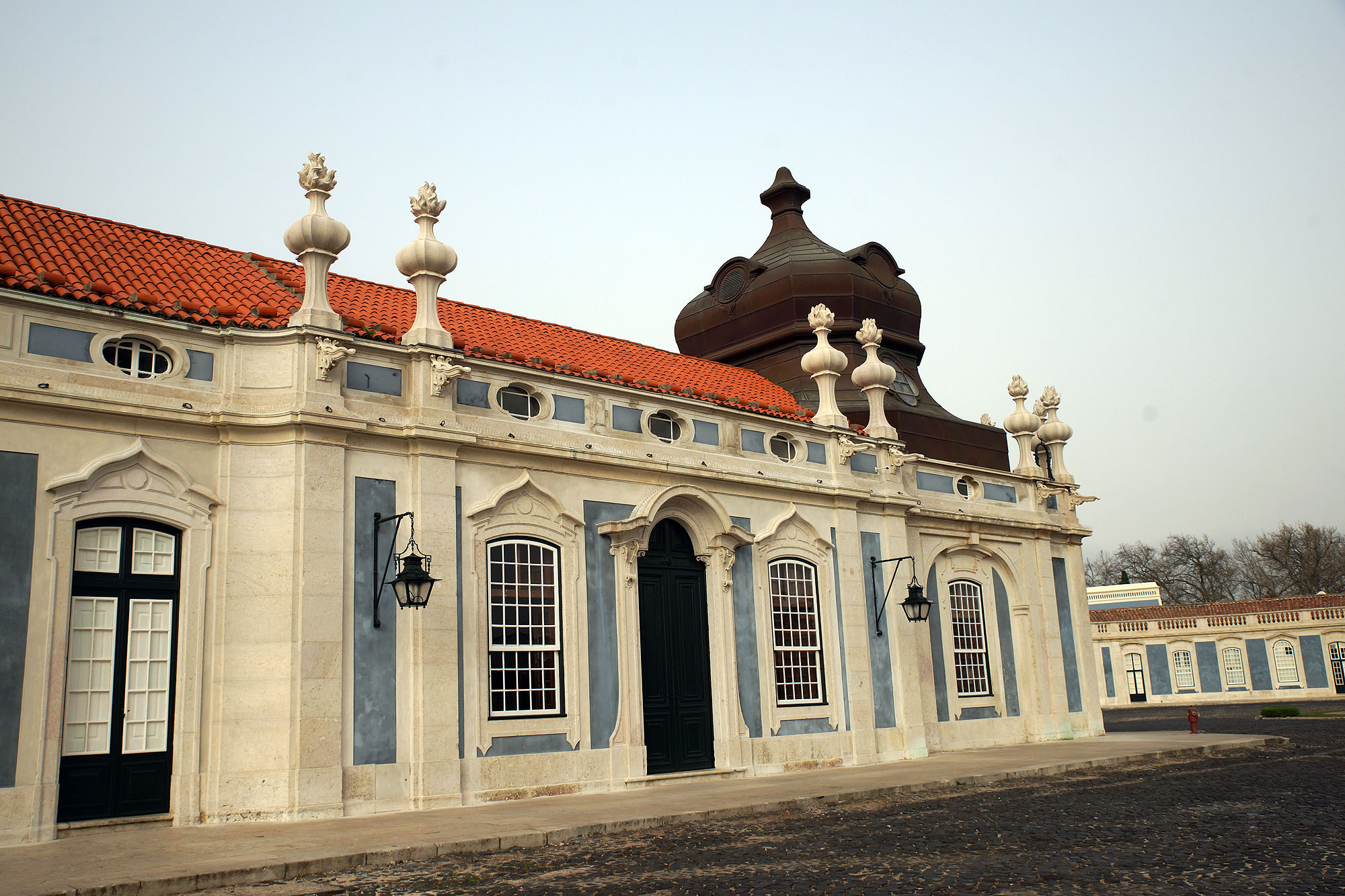 QUELUZ, Portugal QUELUZ (Wiki): Queluz – Palacio: National Palace of Queluz: PORTUGAL (Wiki)